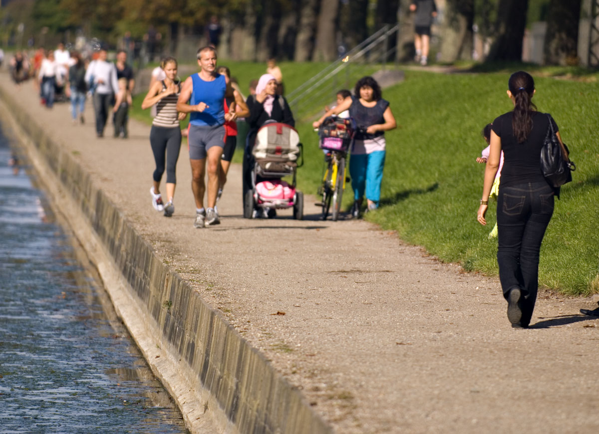 People at the brink of Sortedam Sø in inner Copenhagen